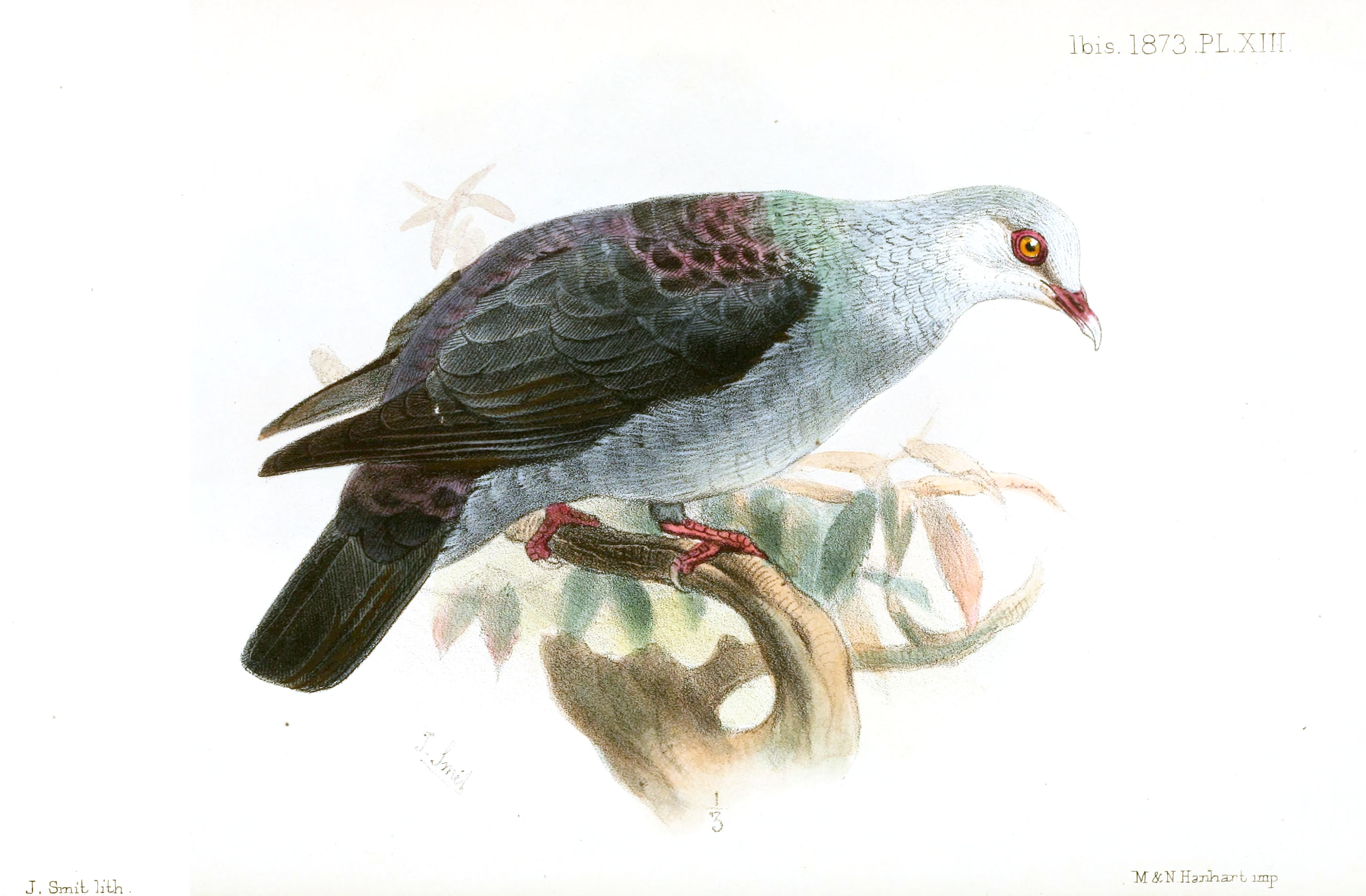 « Ianthoenas columboides » = Columba palumboides (Andaman Wood Pigeon)